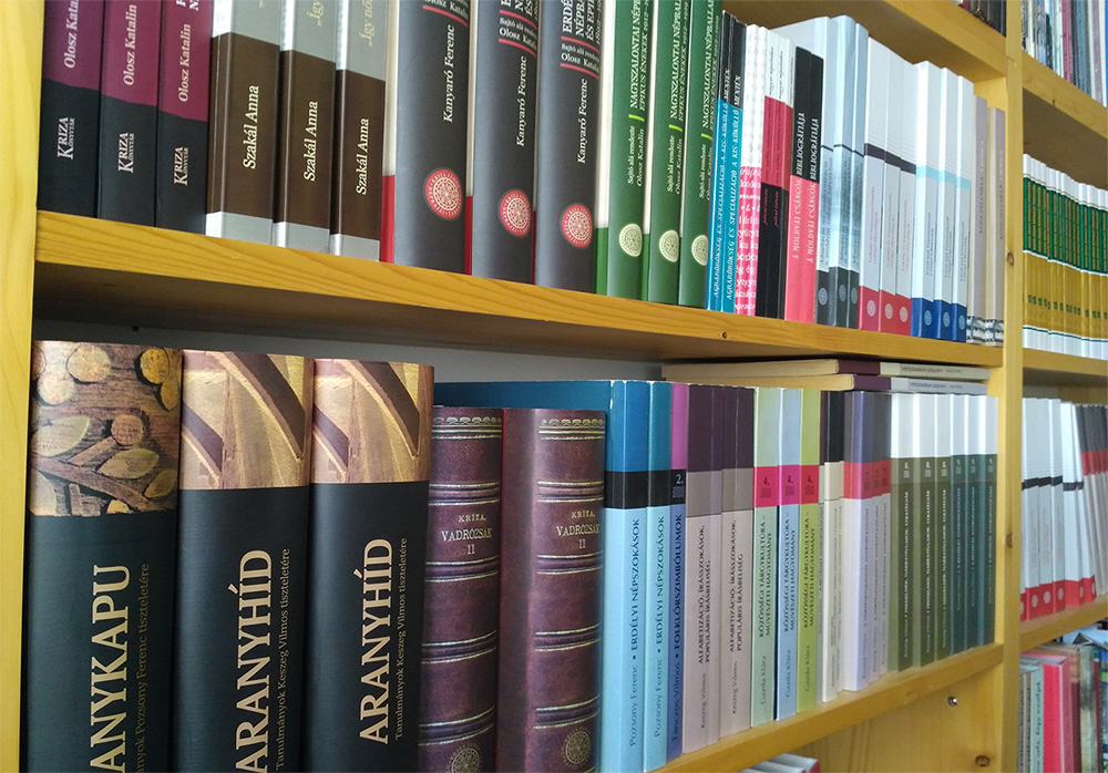 Kriza János Ethnographic Society - publications